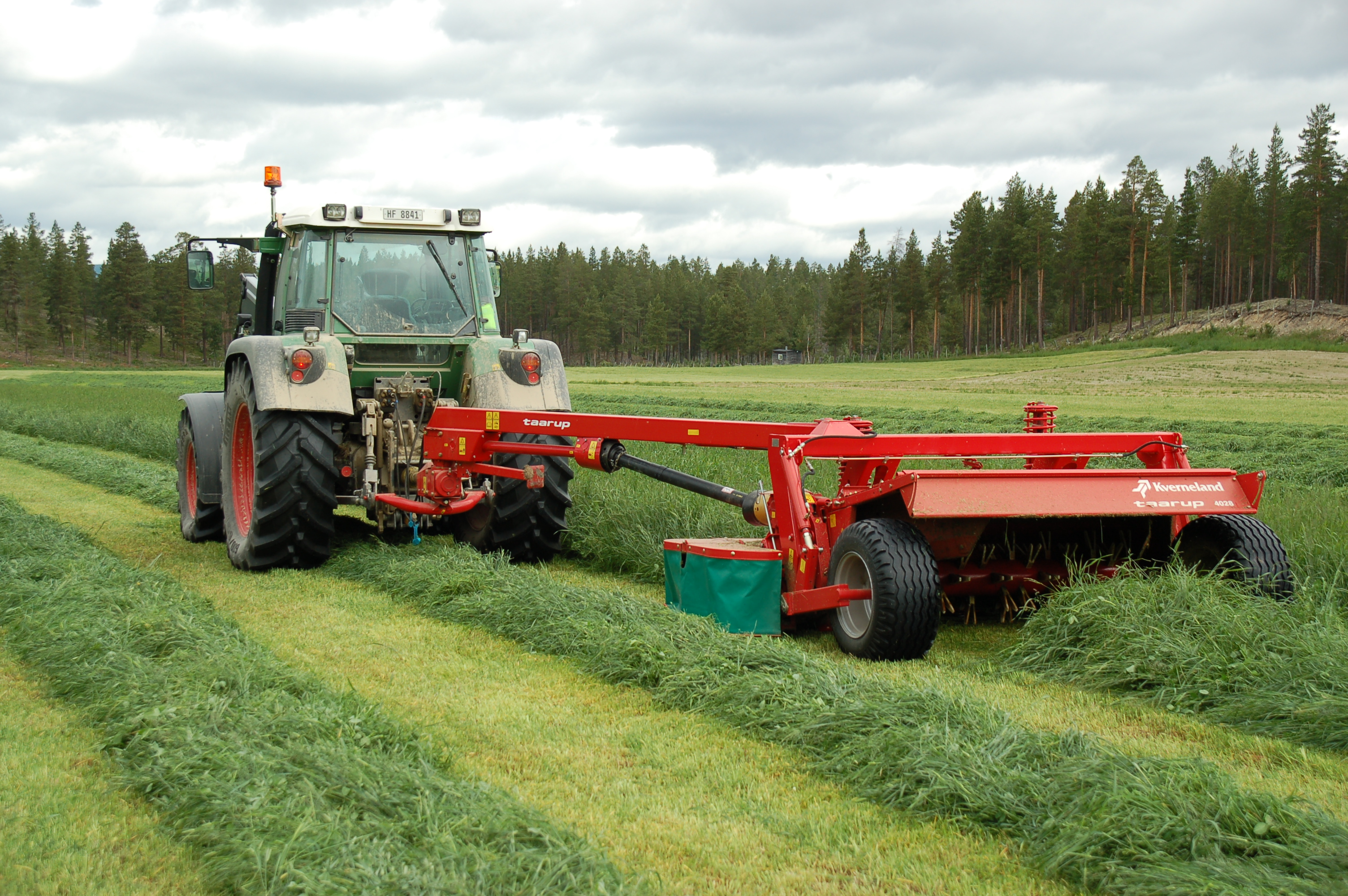 A Fendt tractor and a Kverneland Taarup 4028 mower-conditioner